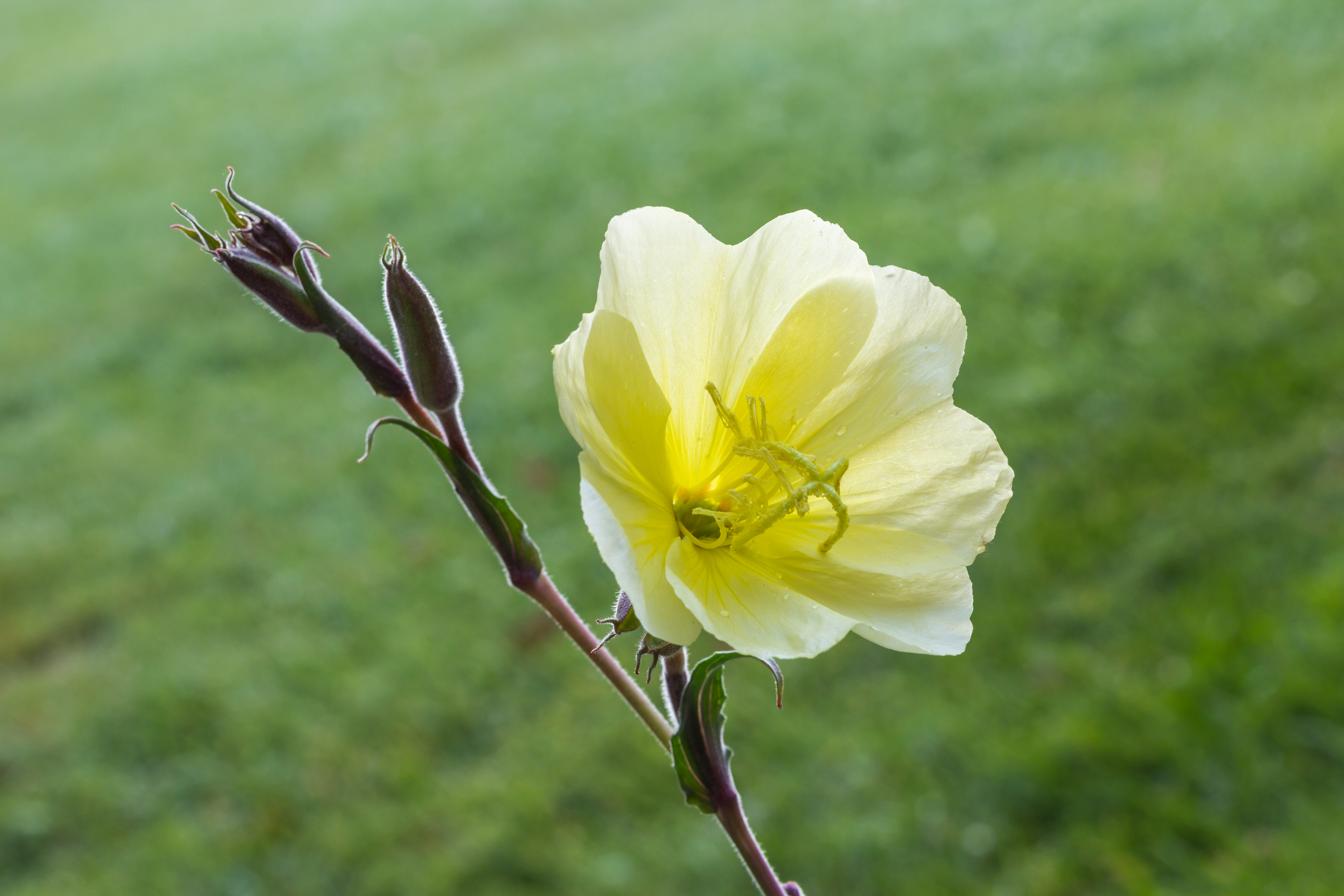 Oenothera stricta biennial rare teunisbloem. Blooms in the night.